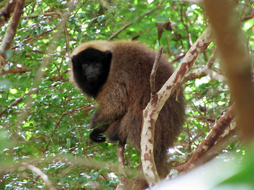 Atlantic titi (Callciebus personatus).